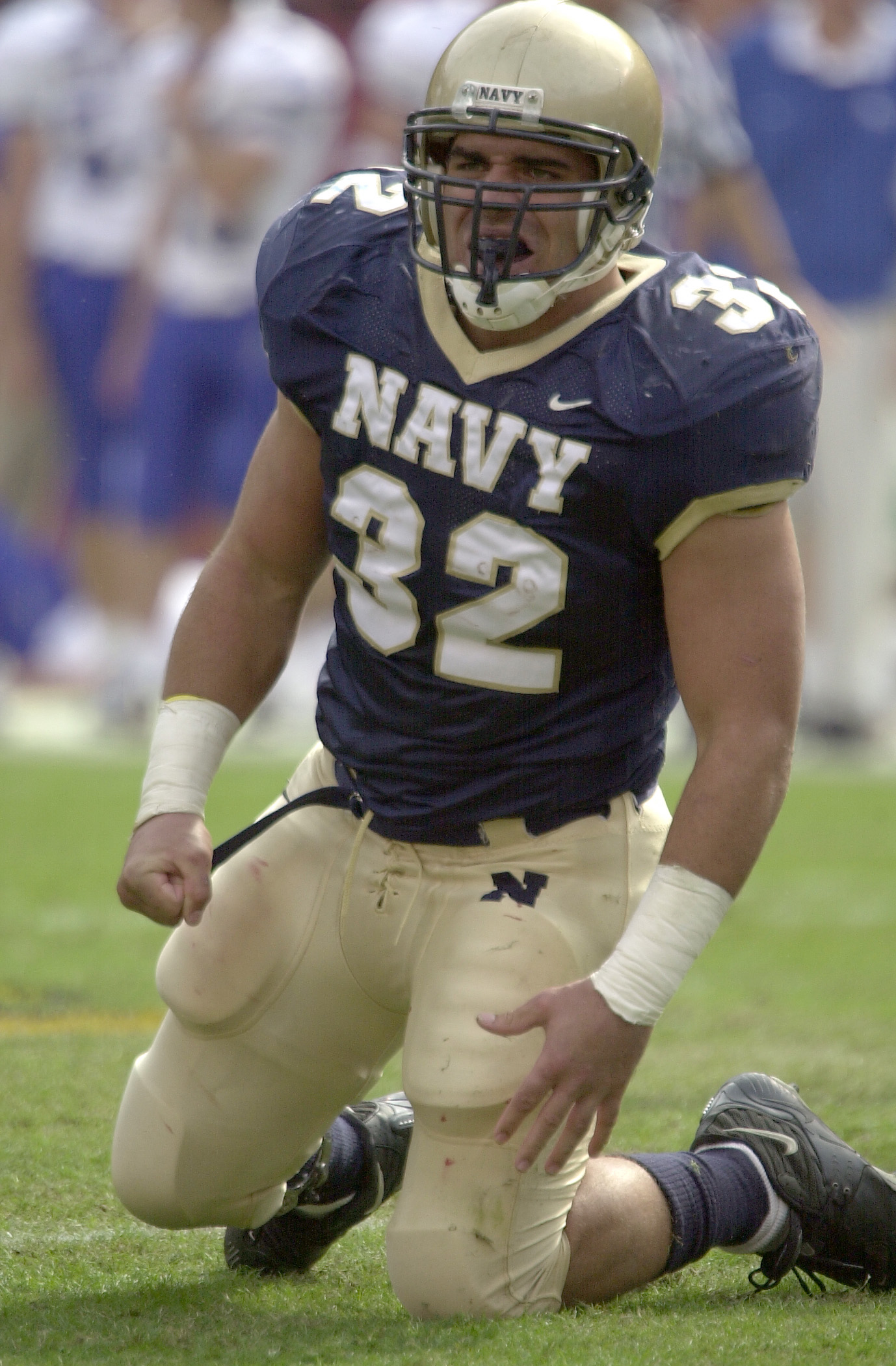 Landover, Md. (Oct. 4, 2003) -- Navy fullback Kyle Eckel celebrates a rushing attempt against Air Force. Eckel ran for a career-high 176 yards and a touchdown. Navy upset Air Force 28-25 in the inter-service game at FedEx field in Landover, Md. The Midshipmen snapped a six-game losing streak to the Falcons with the victory. The victory put Navy in excellent position to win the Commander-In-Chief's Trophy, awarded to the team with the best record in games between the three major service academies. The trophy will be up for grabs when Navy plays Army Dec. 6. U.S. Navy photo by Photographer’s Mate 2nd Class Damon J. Moritz. (RELEASED)